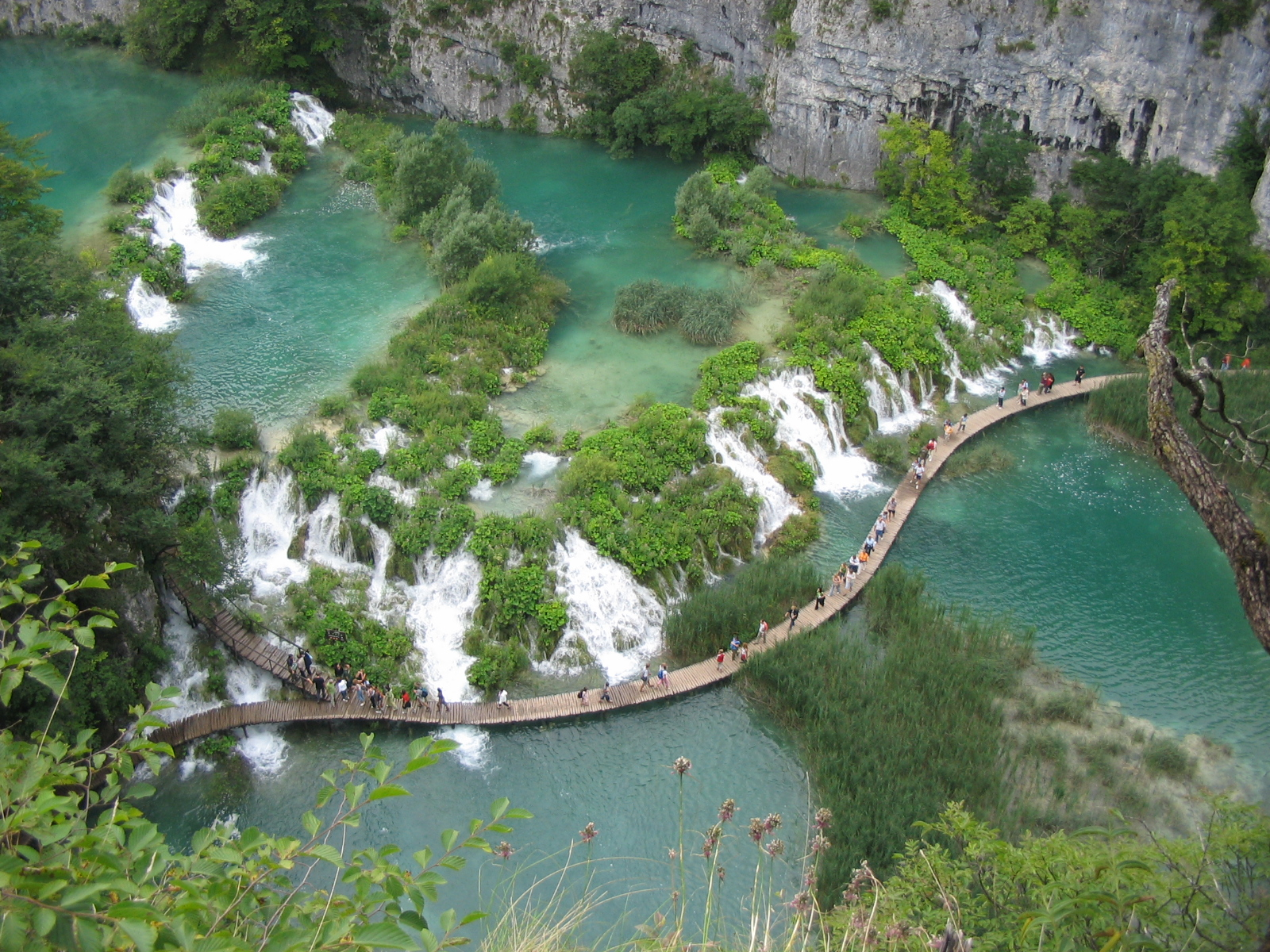 Tourists on the boardwalk under the cascade.